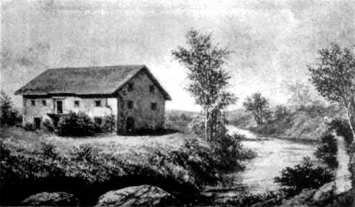 Samuel Brannan's store at Sutter's Fort, Sacramento, California.